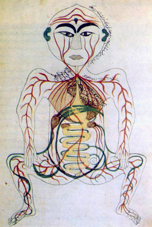 Image from 15th century AH (15th century AD) Persian manuscript by Mansur ibn Muhammad Ahmad at the Majles Library, Tehran.